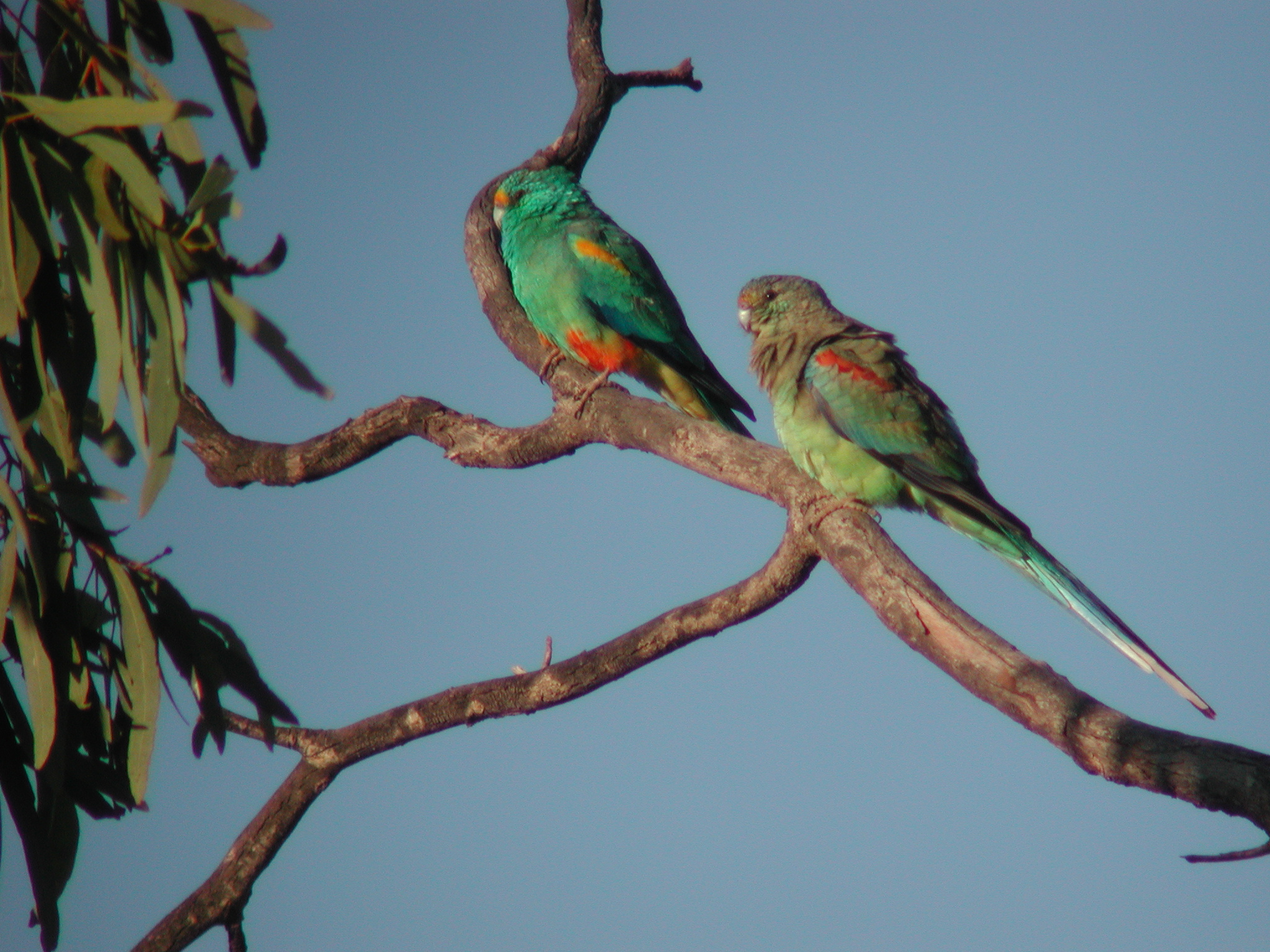 Mulga Parrot (Psephotus varius) Curranwinya NP, SW Queensland, Australia